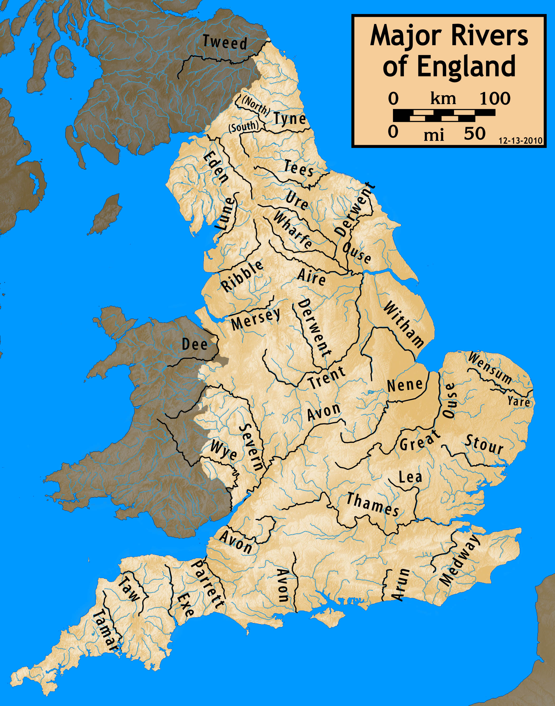 Major Rivers of England